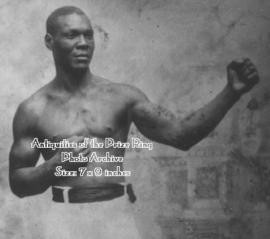 CAC Smith, "The black thunderbolt" boxer.